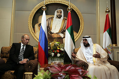 ABU DHABI. With President of the United Arab Emirates Sheikh Khalifa Bin Zayed Al Nahyan.